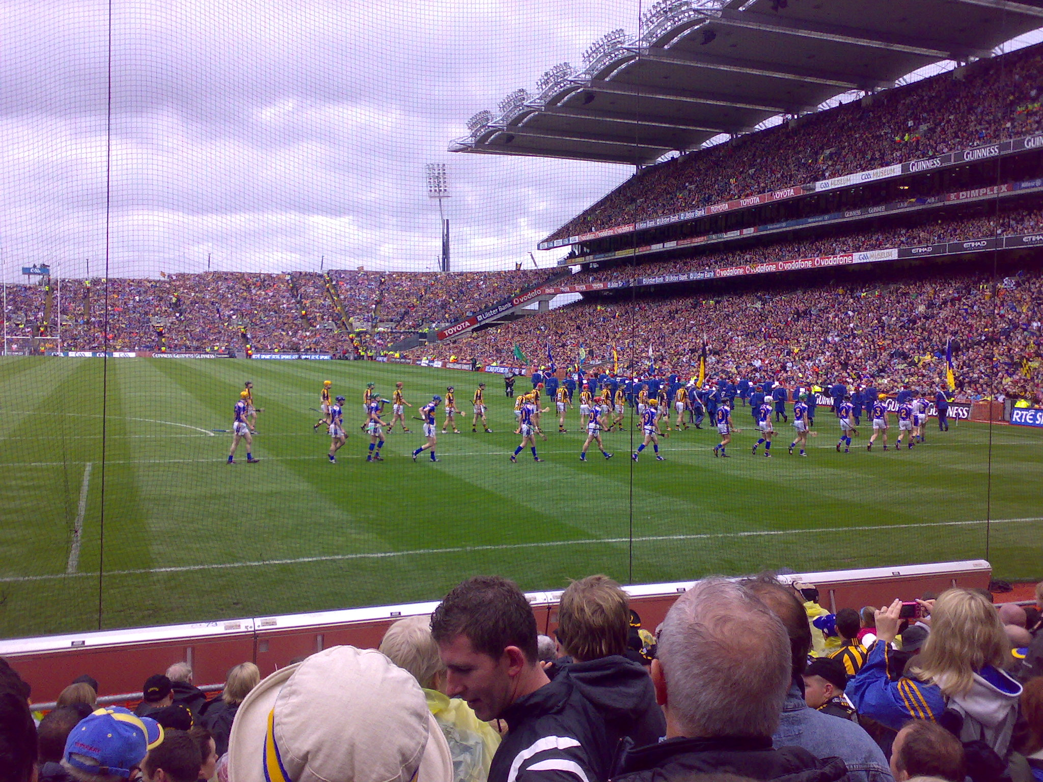 2009 All-Ireland Senior Hurling Championship Final teams marching before game